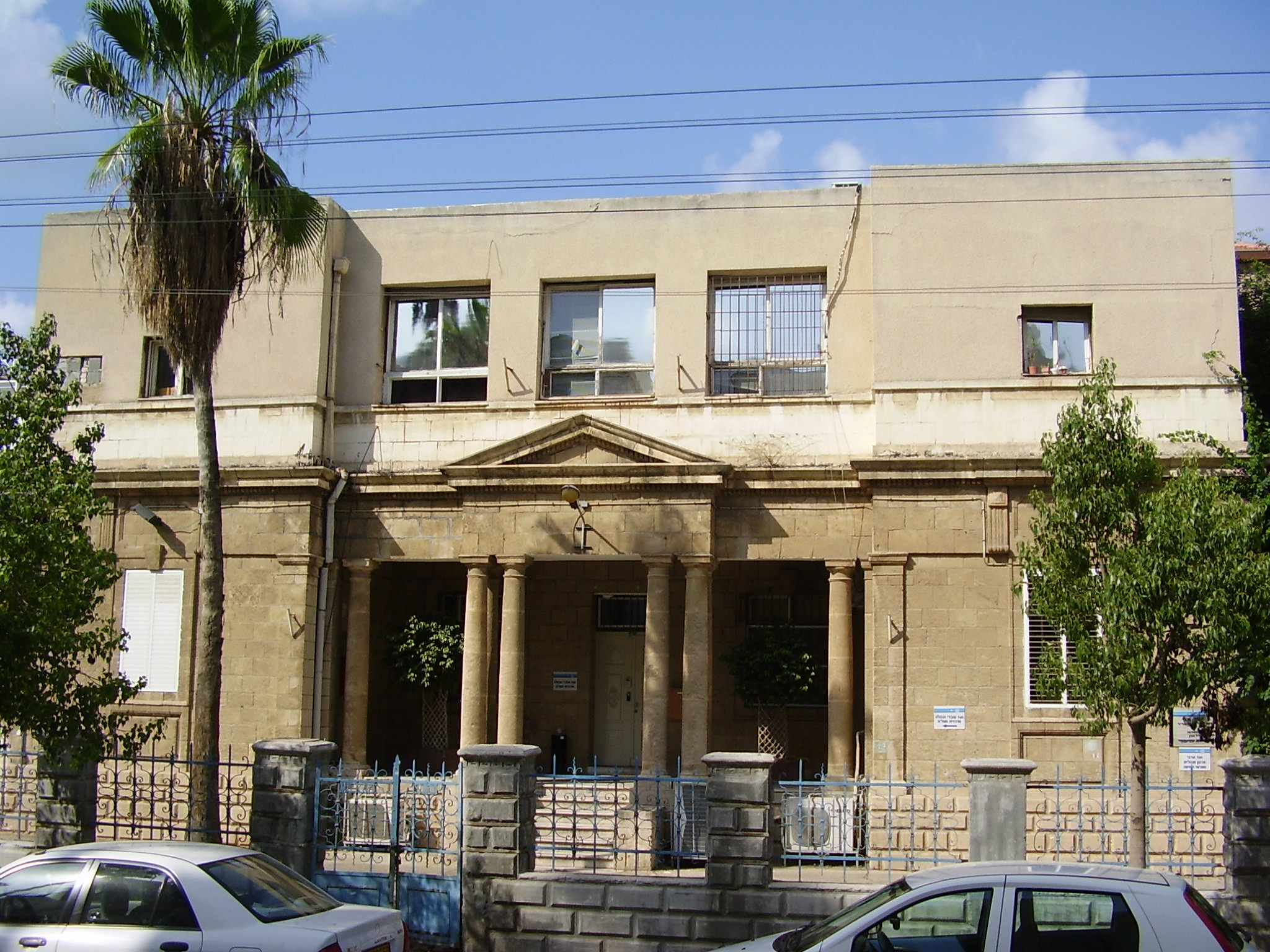 Former "freude" maternal hospital in Tel Aviv